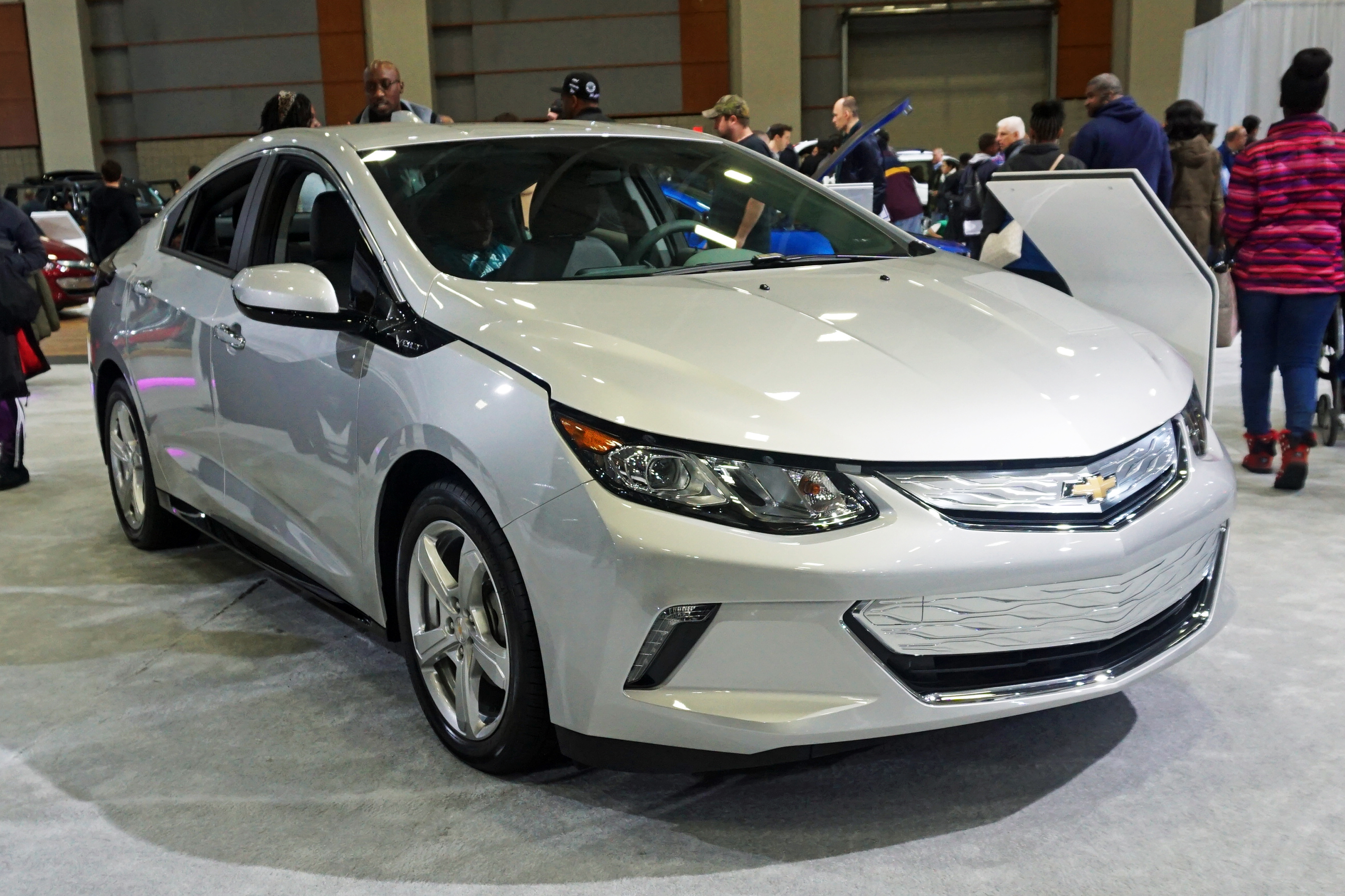 2017 Chevrolet Volt (second generation) exhibited at the 2017 Washington Auto Show, D.C., U.S.